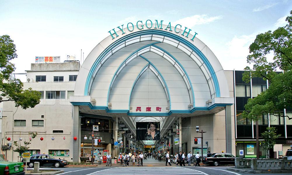 Hyogo Machi Takamatsu, Kagawa